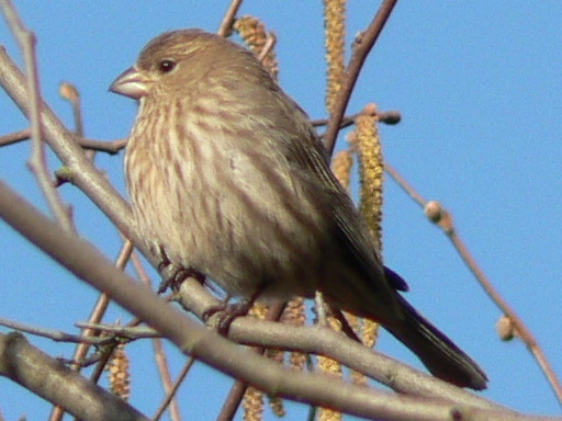 House Finch female